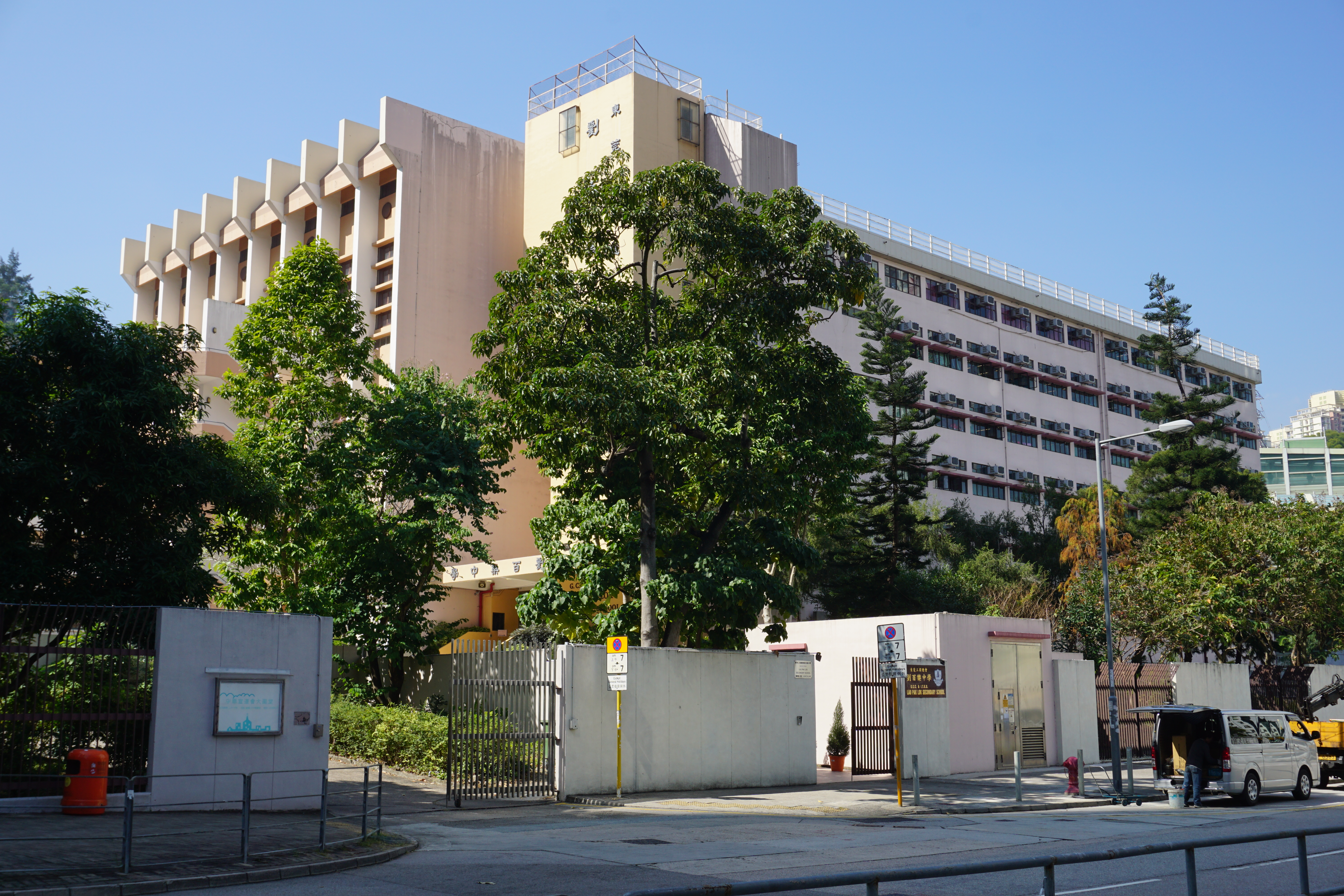 GCCITKD Lau Pak Lok Secondary School in Tai Wai, Hong Kong.